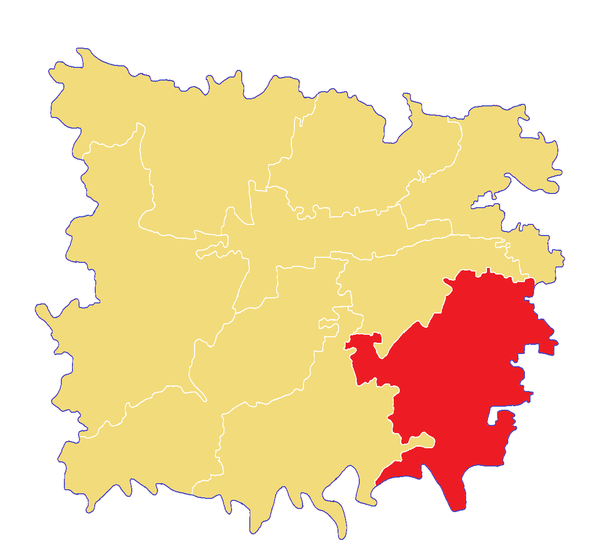 Location of Asharkandi Union in Jagannathpur Upazila